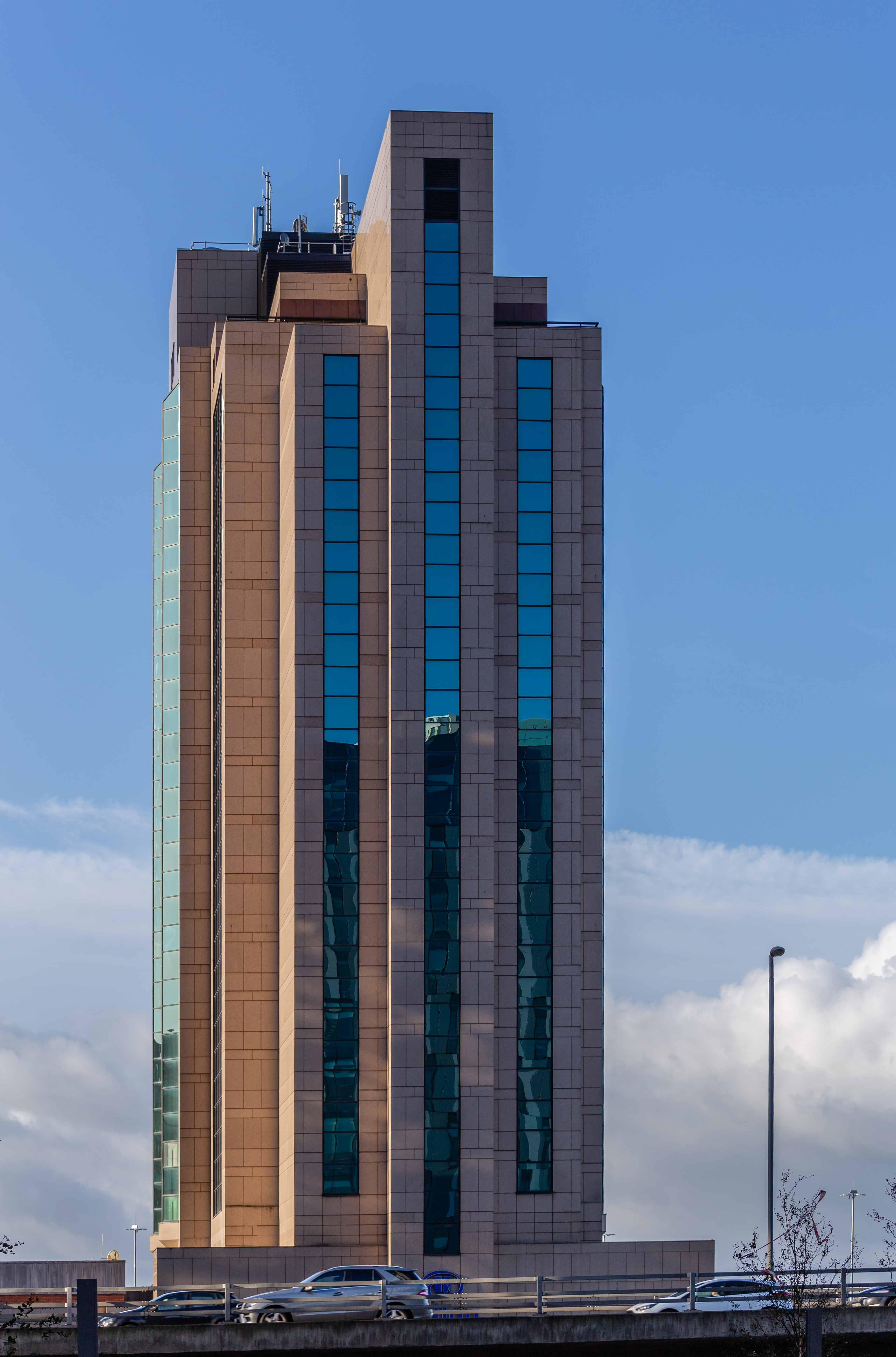 Hilton Hotel seeing from Vincent Street, Glasgow, Scotland